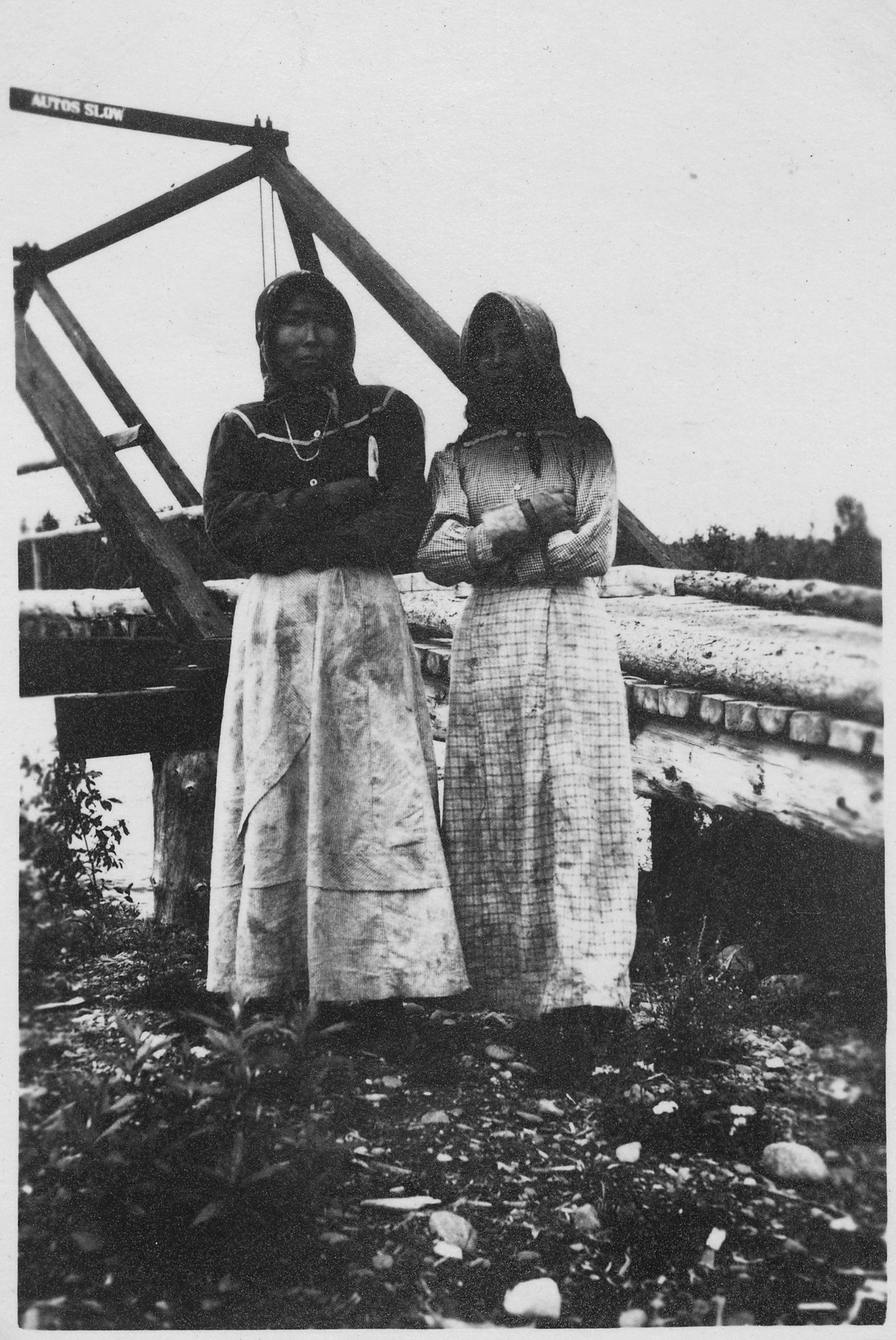 Scope and content: On backing: "Presented to Mr. Wellcome by O.B. Kent, Interstate Commerce Commission, Washington D.C. See Letter 10-7-16 O.B. Kent to H.S. Wellcome attached to descriptive memorandum accompanying photo #978."